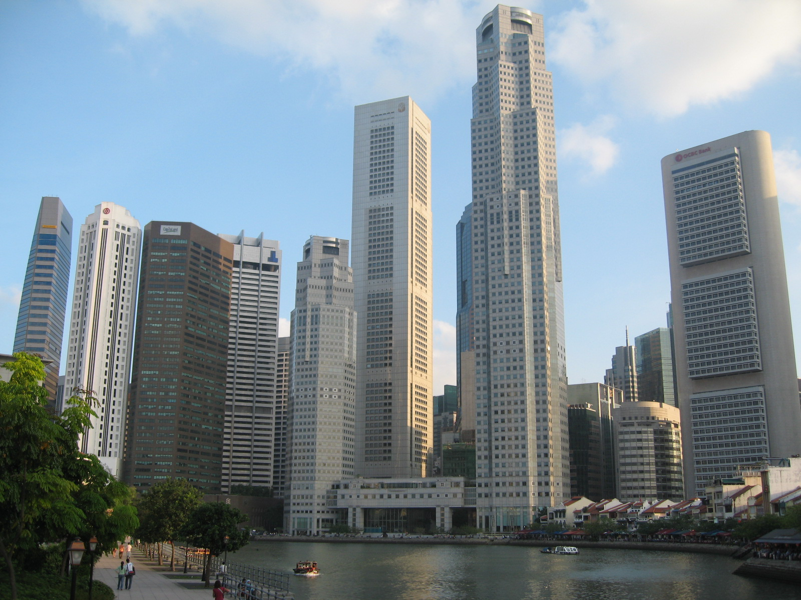 Singapore River (southern side of the river) as taken from Parliament House on the nothern side. The buildings are as follows (from left to right): Maybank Tower, Bank of China Building, Six Battery Road, UOB Plaza Two, OUB Centre, Republic Plaza (partly hidden), UOB Plaza One Singapore Land Tower, Boat Quay, OCBC Centre East and OCBC Centre.